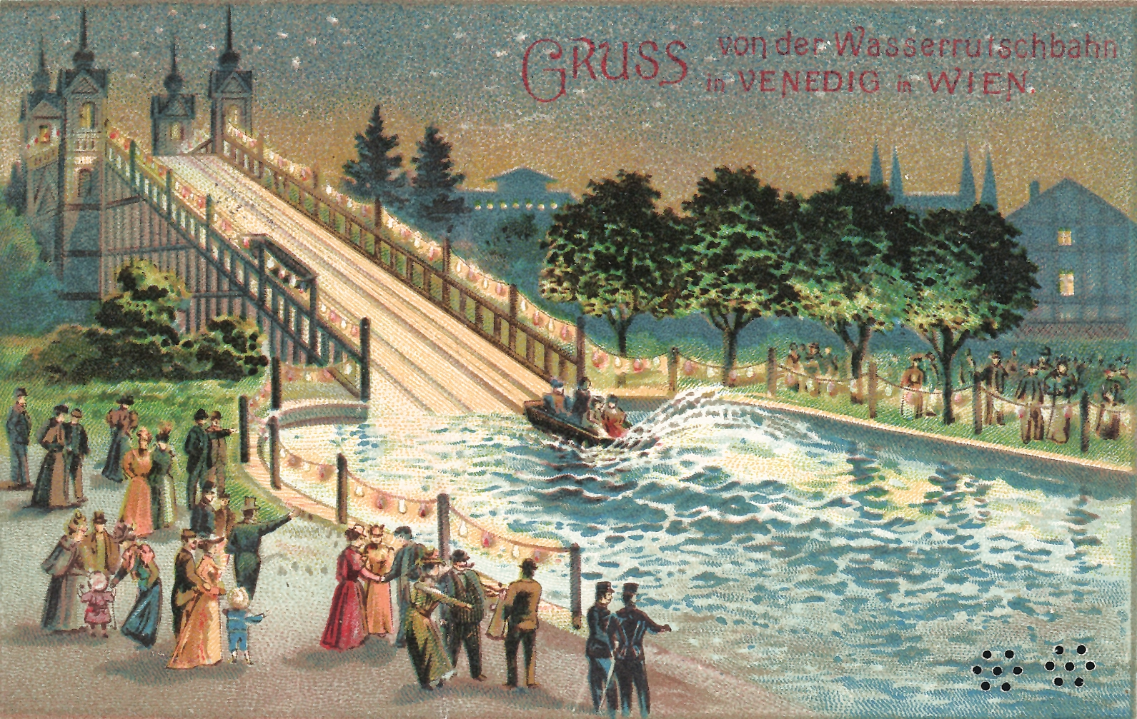 Waterslide